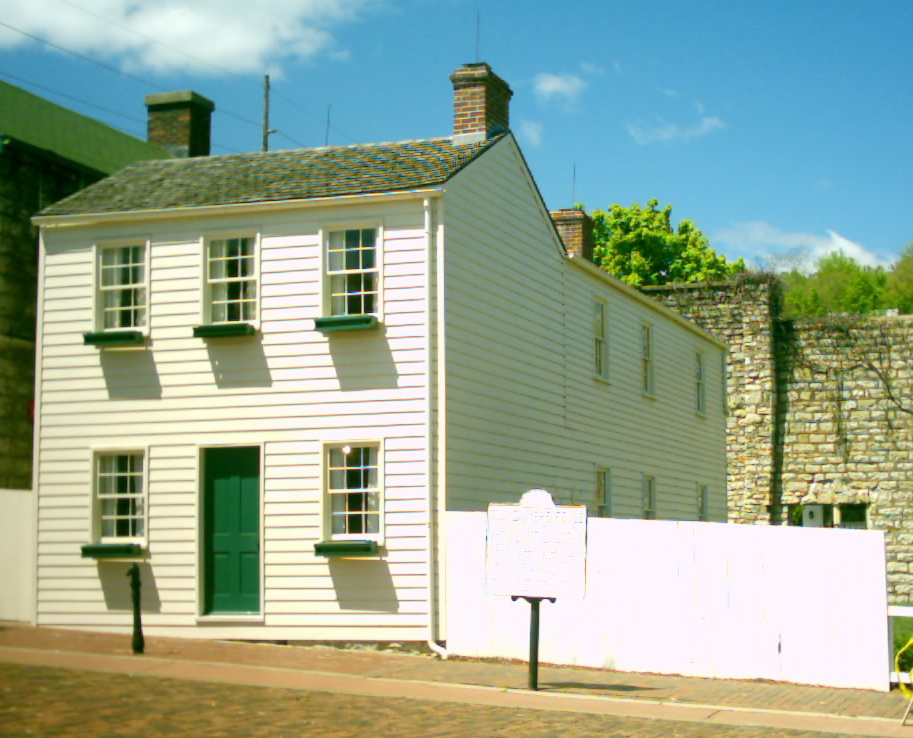 Mark Twain's boyhood home in Hannibal, Missouri.